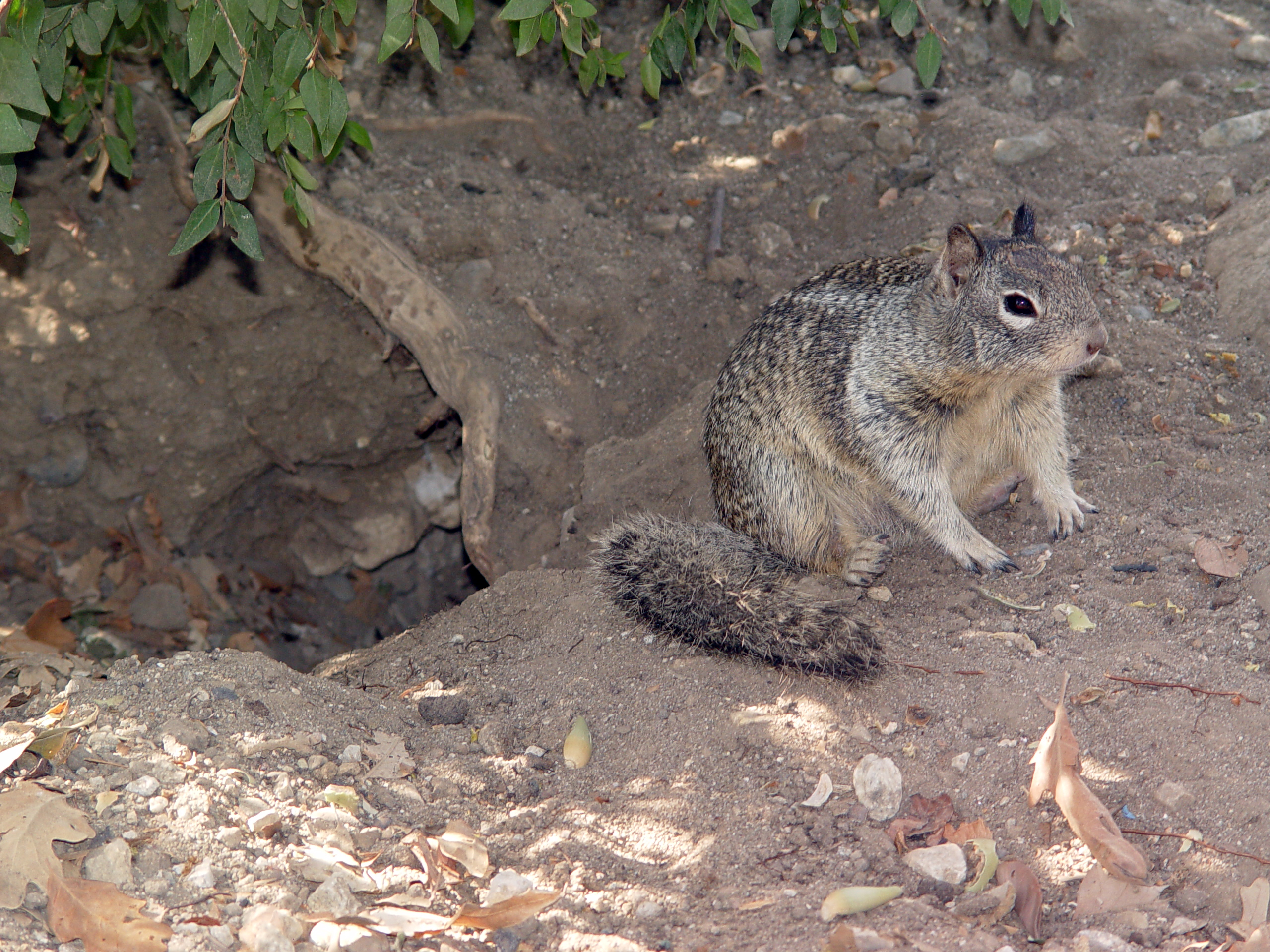 California Ground Squirrel (Spermophilus beecheyi) in front of its burrow (hole on the left).